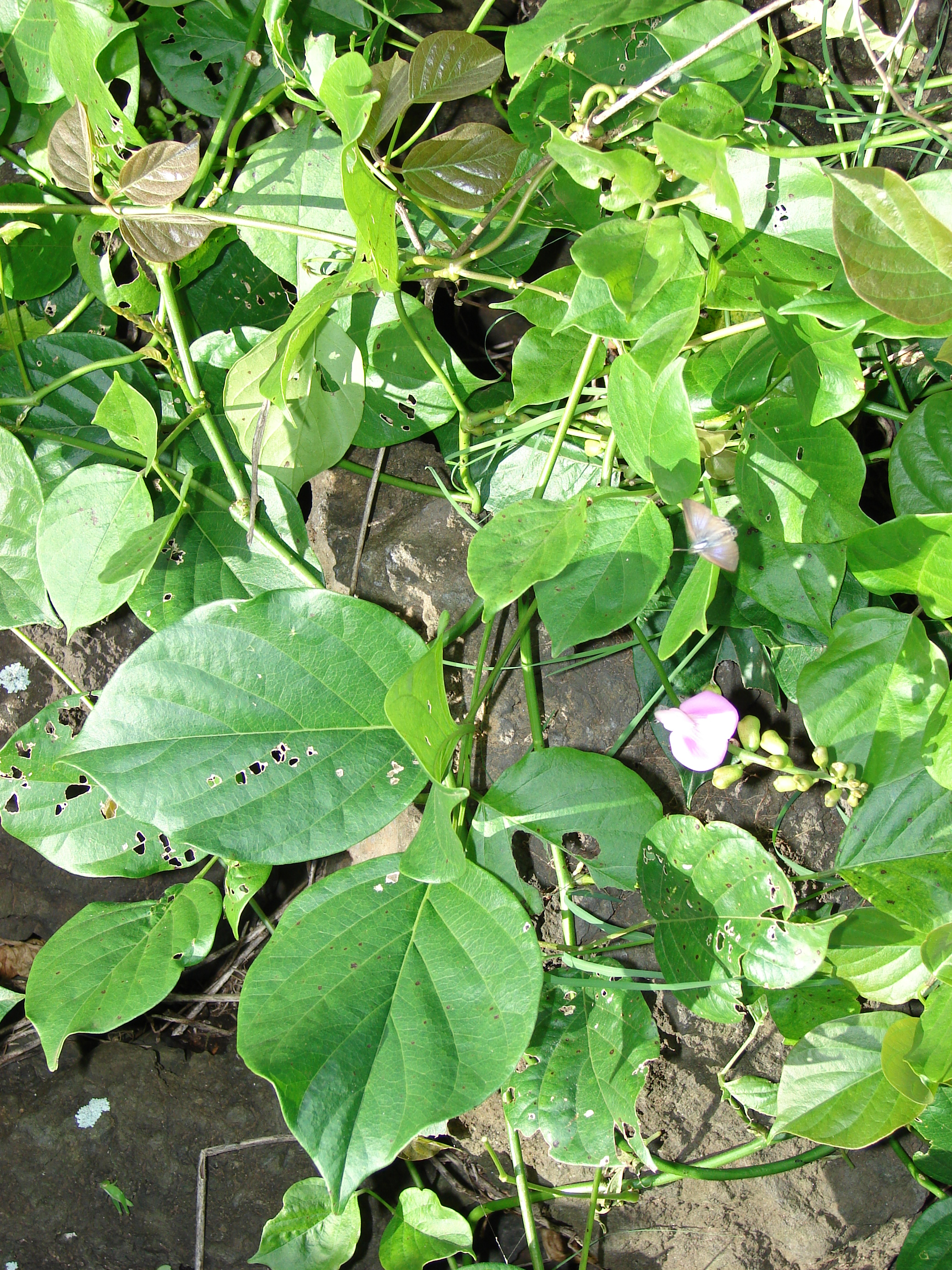 Canavalia cathartica (flowers and leaves). Location: Maui, Hana